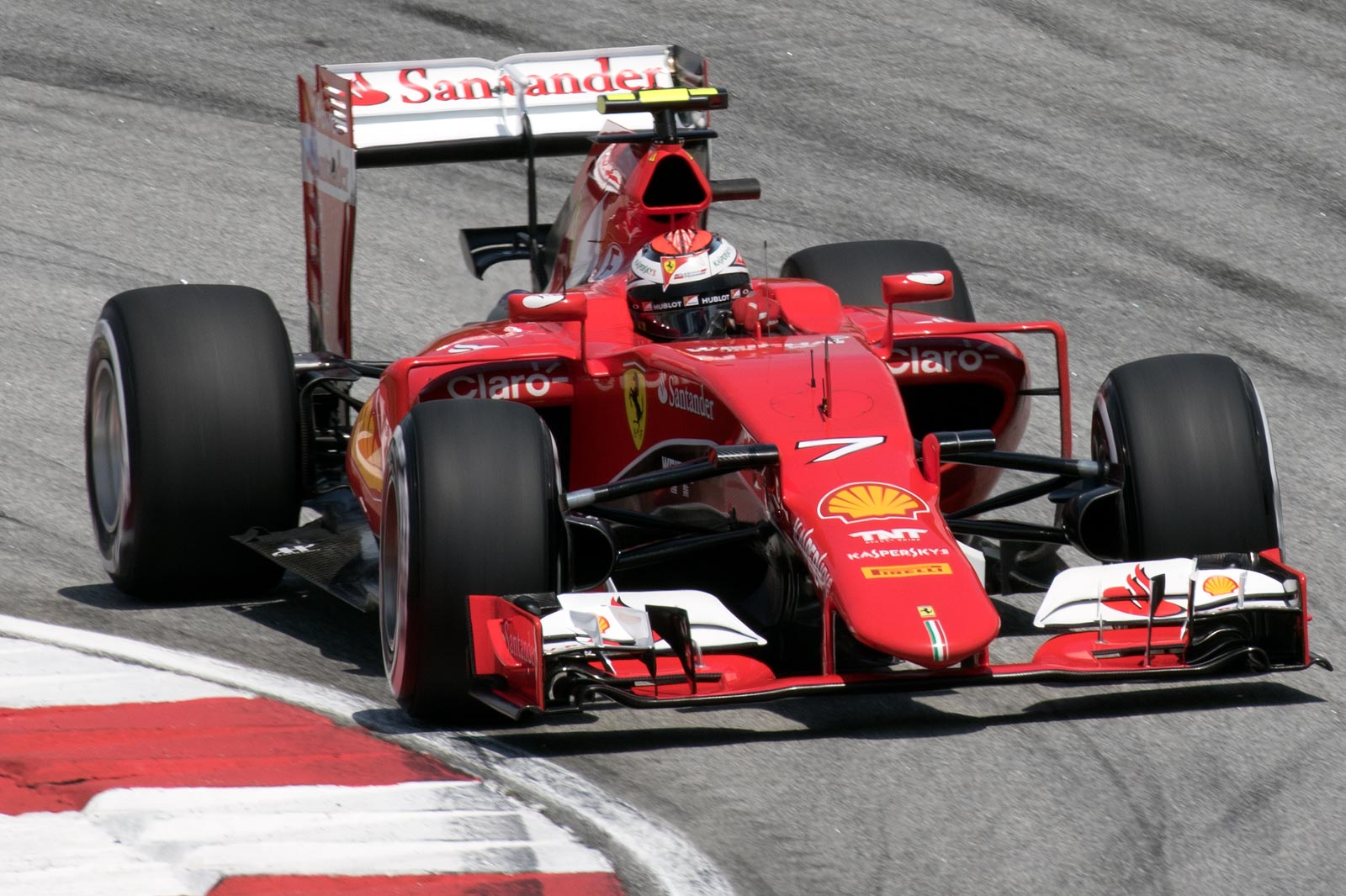 Formula One 2015 Rd.2 Malaysian GP: Kimi Räikkönen (Ferrari)